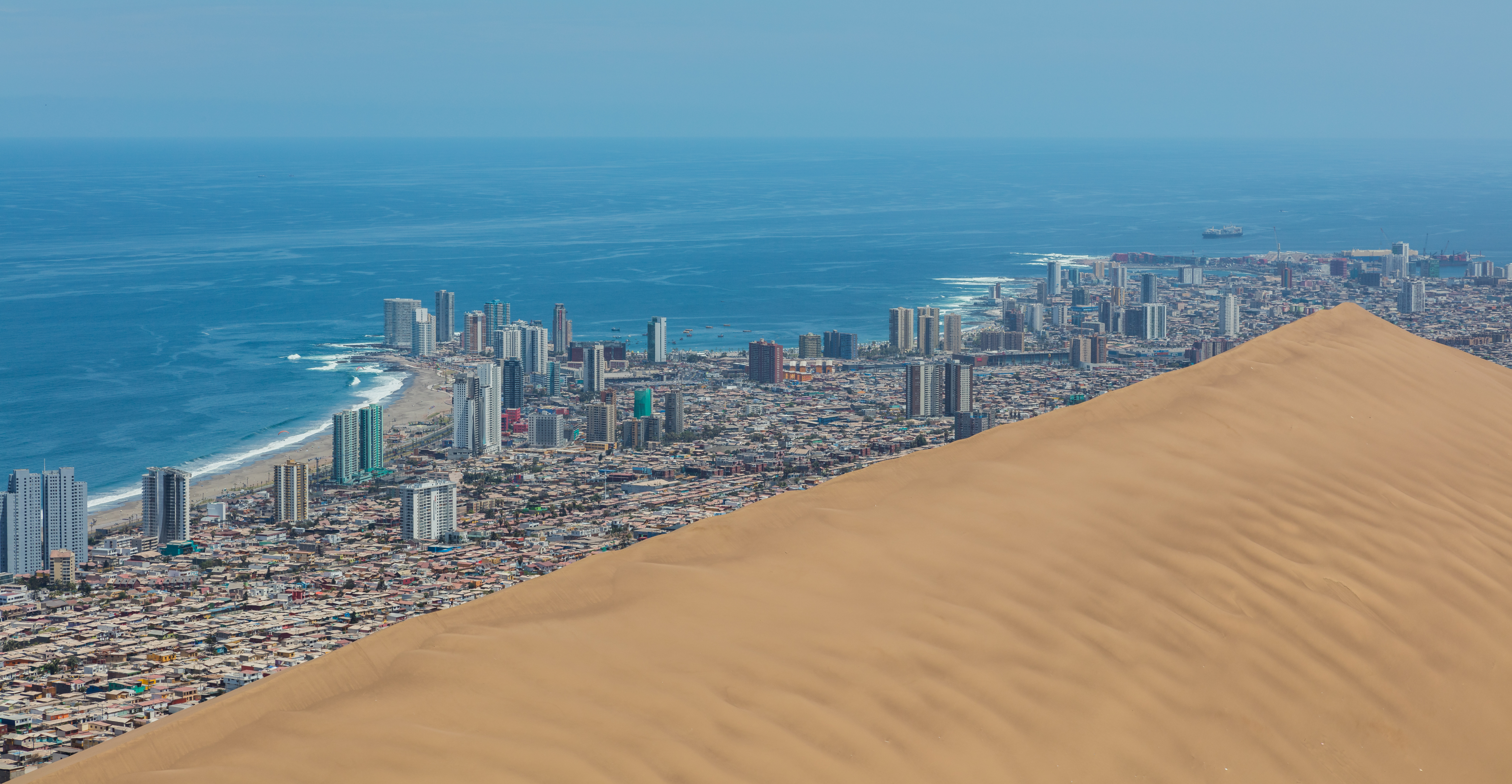 View of the Dragon Dune in the foreground and the city of Iquique in the background, Tarapacá Region, northern Chile. The dune is about 20 000 years old and was originated by coastal winds when the sea level was 100 metres (110 yd) further inside. The dune looks menacing, especially from the bottom, but is stable. It became a Natural Sanctuary in 2005 but before that it was partially removed in the West wing to allow the growth of the city of Iquique. The dune is 6.4 kilometres (4.0 mi) long, between 150–550 metres (160–600 yd) wide and 320 metres (350 yd) high. Iquique has aprox. 185 000 inhabitants and is a prosperous and fast-growing city thanks to the free trade activities.